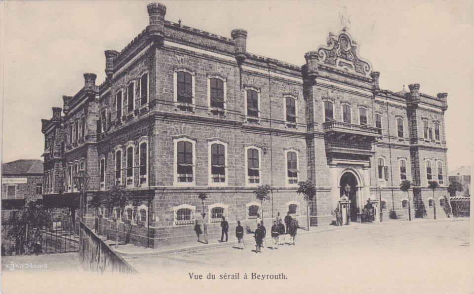 The small Serail, a governmental building of Ottoman Lebanon in Beirut.